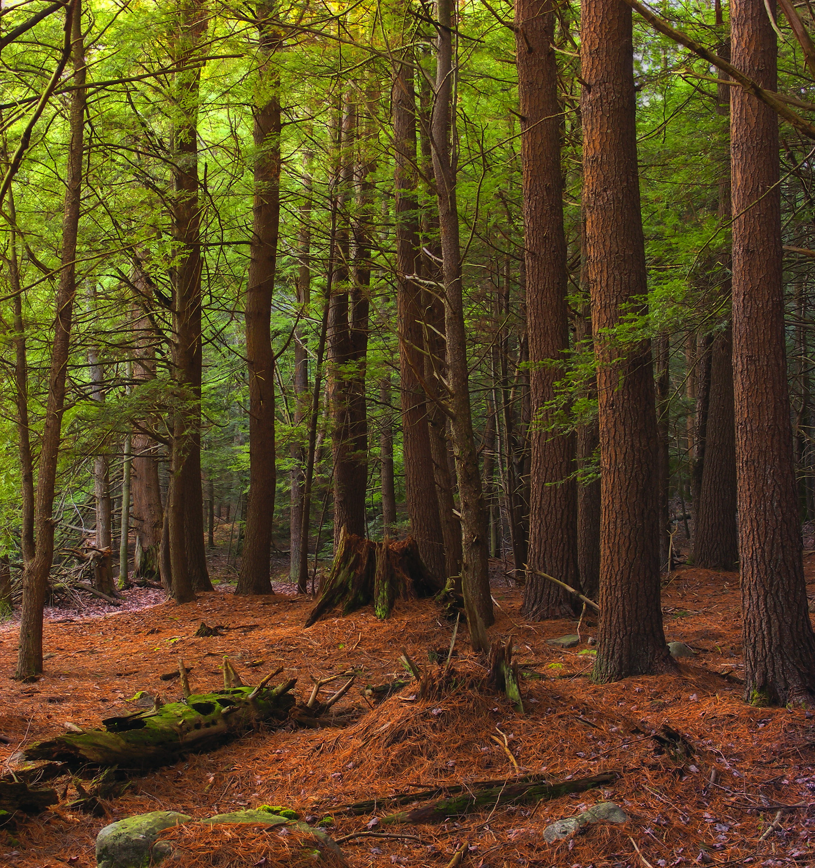 Hemlock forest, Rapid Run Natural Area, Union County, within R.B. Winter State Park.